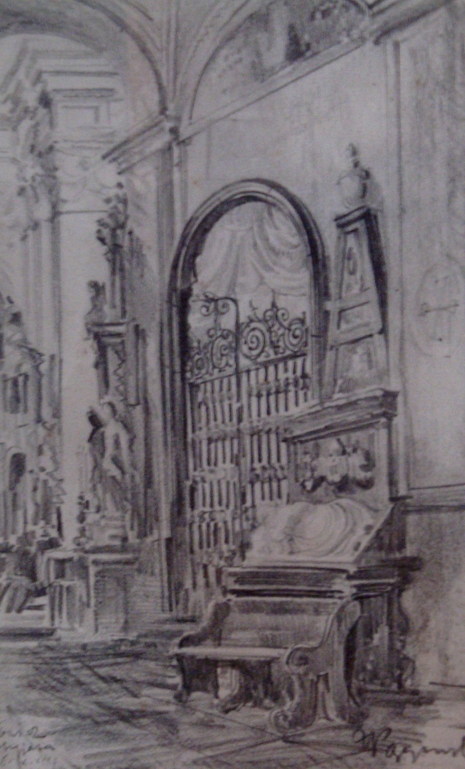 photo of a drawing by Zdzislaw Pagowski, depicting the interior of Kolegiata Lowicka, one of the main churches in Lowicz, Poland